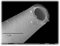 scanning electron microscope image of planar patch chip (Author: N. Fertig)